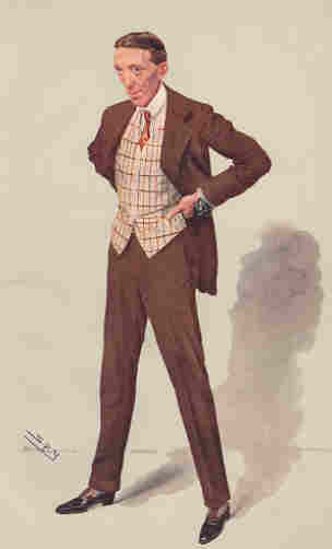 Caricature of Gerald Hubert Edward Busson du Maurier (1873 – 1934).